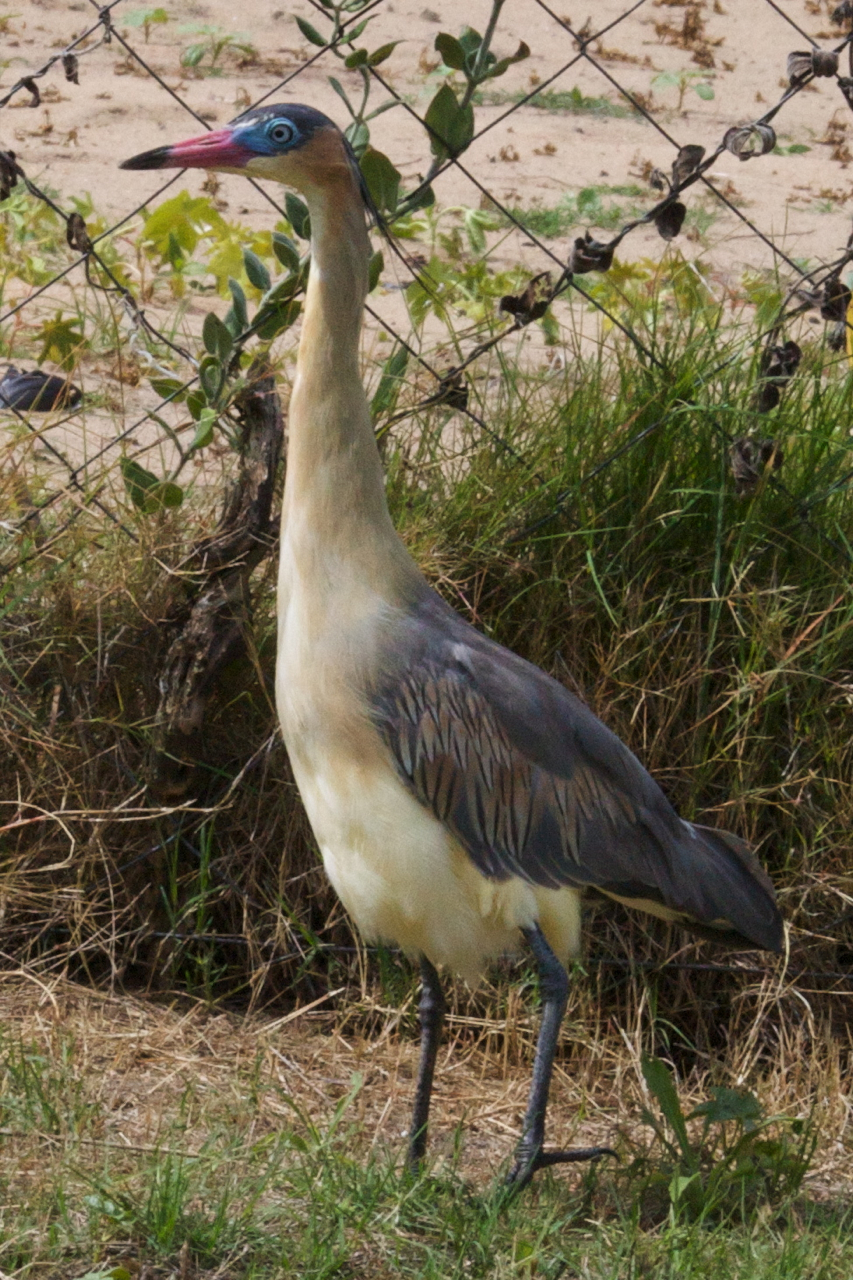 Wild Whistling Heron in the streets of Punta del Este, Uruguay.